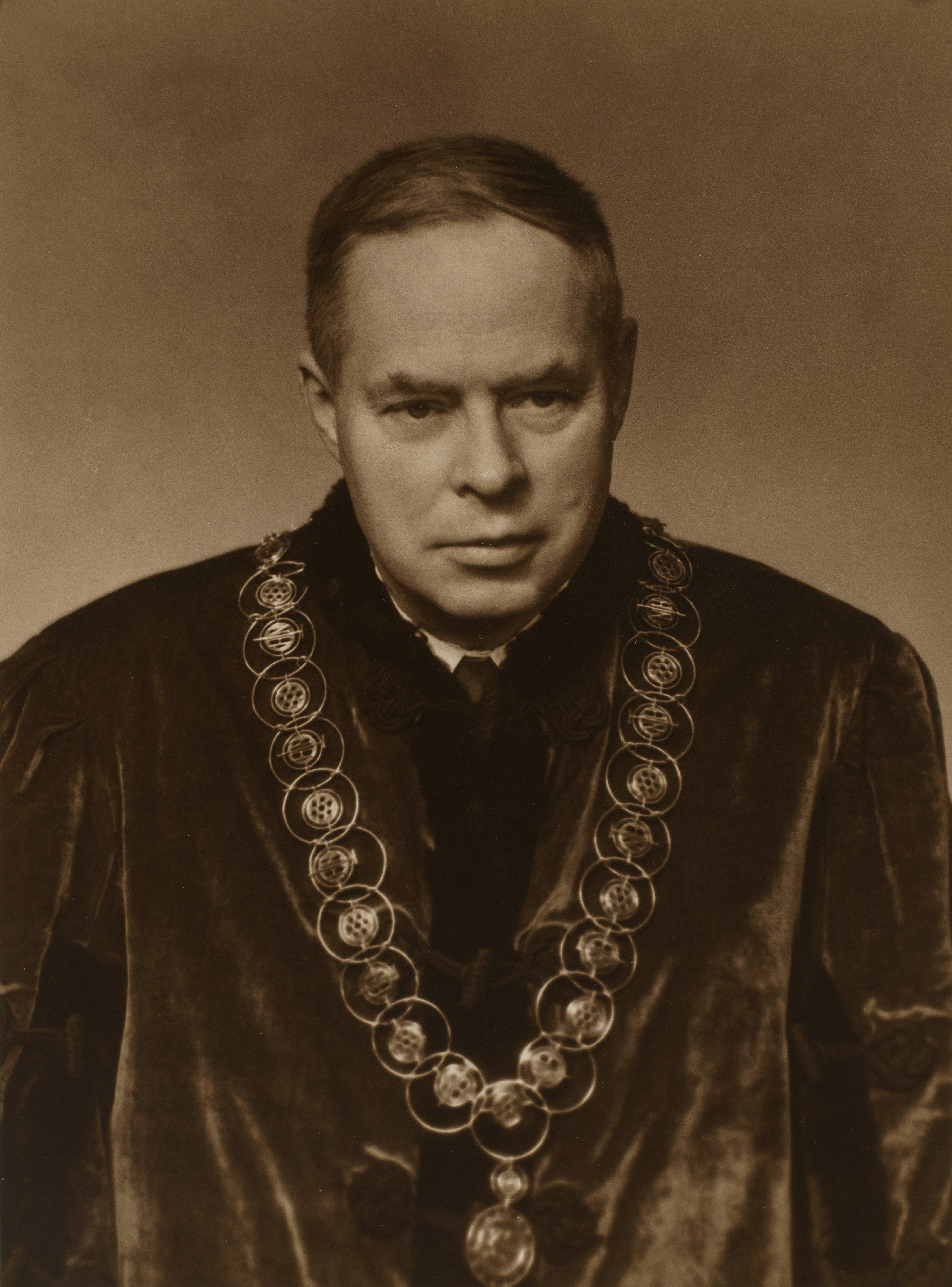 Vogt Fredrik was Professor in Mechanics, later Rector at NTH 1936-1941, 1945-1947. After 1947 he was Director General of the Norwegian Water Resources and Electricity Directorate.